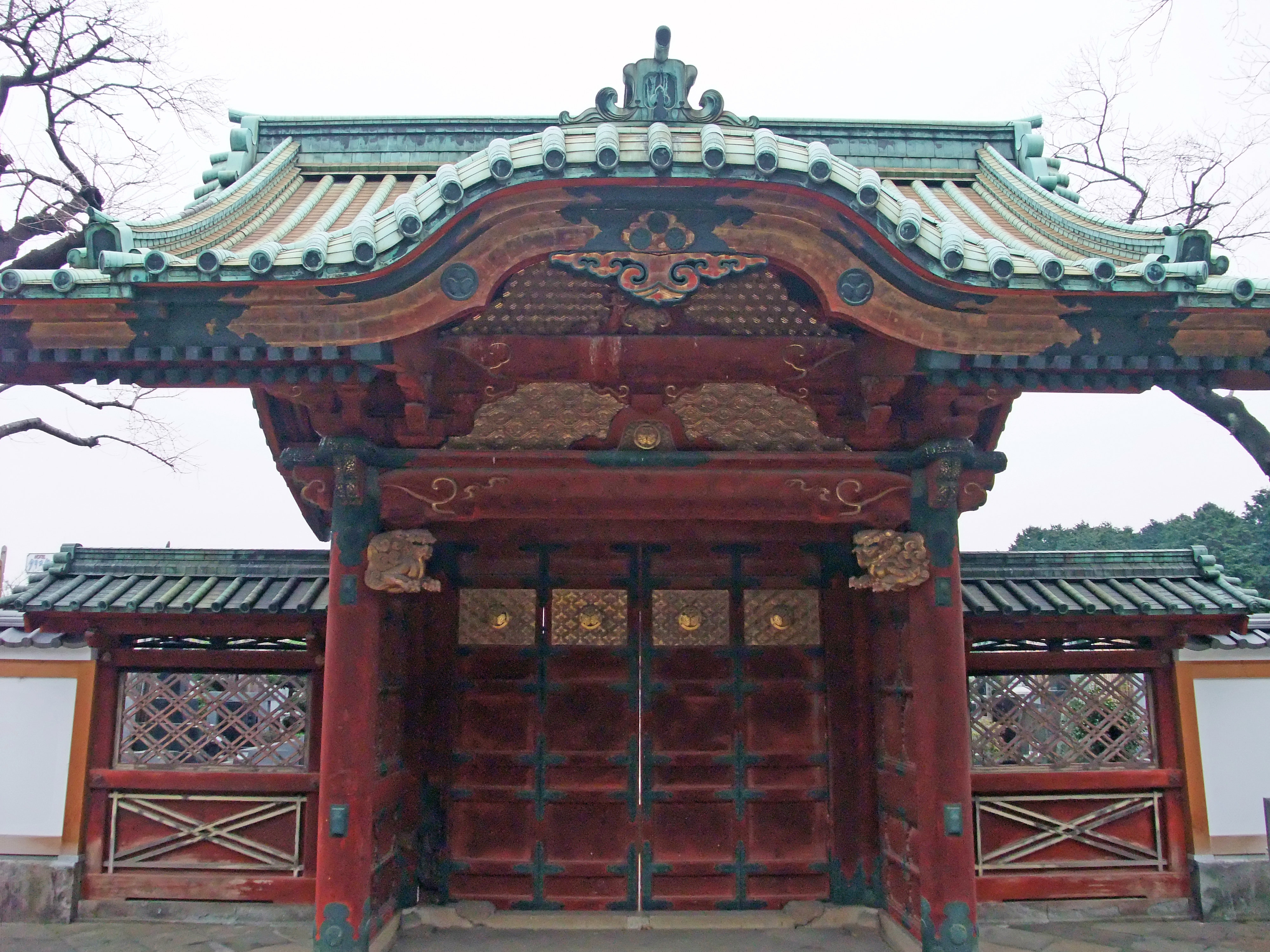 Chokugaku-mon (Gate with an imperial inscription), Mausoleum of Gen'yuin(Tokugawa Ietsuna) (Japan's national important cultural property), Kan'ei-ji temple, Taito-ku, Tokyo, Japan